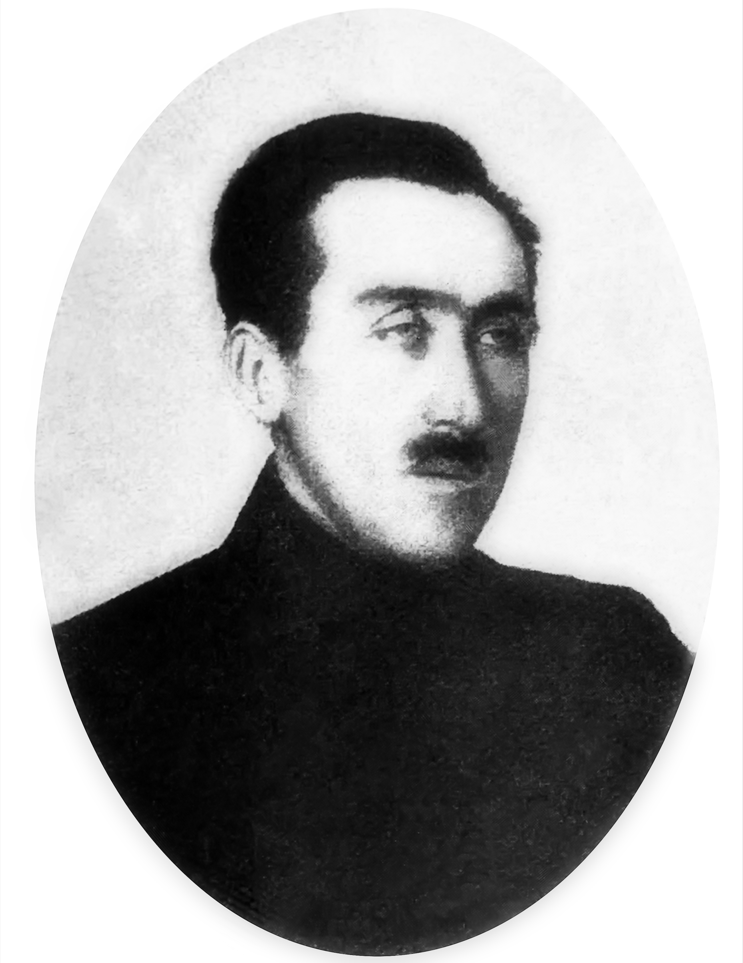 Vsevolod Golubovich - Ukrainian politician